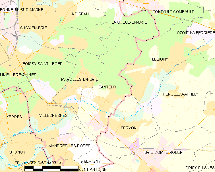 Map of French municipality Santeny